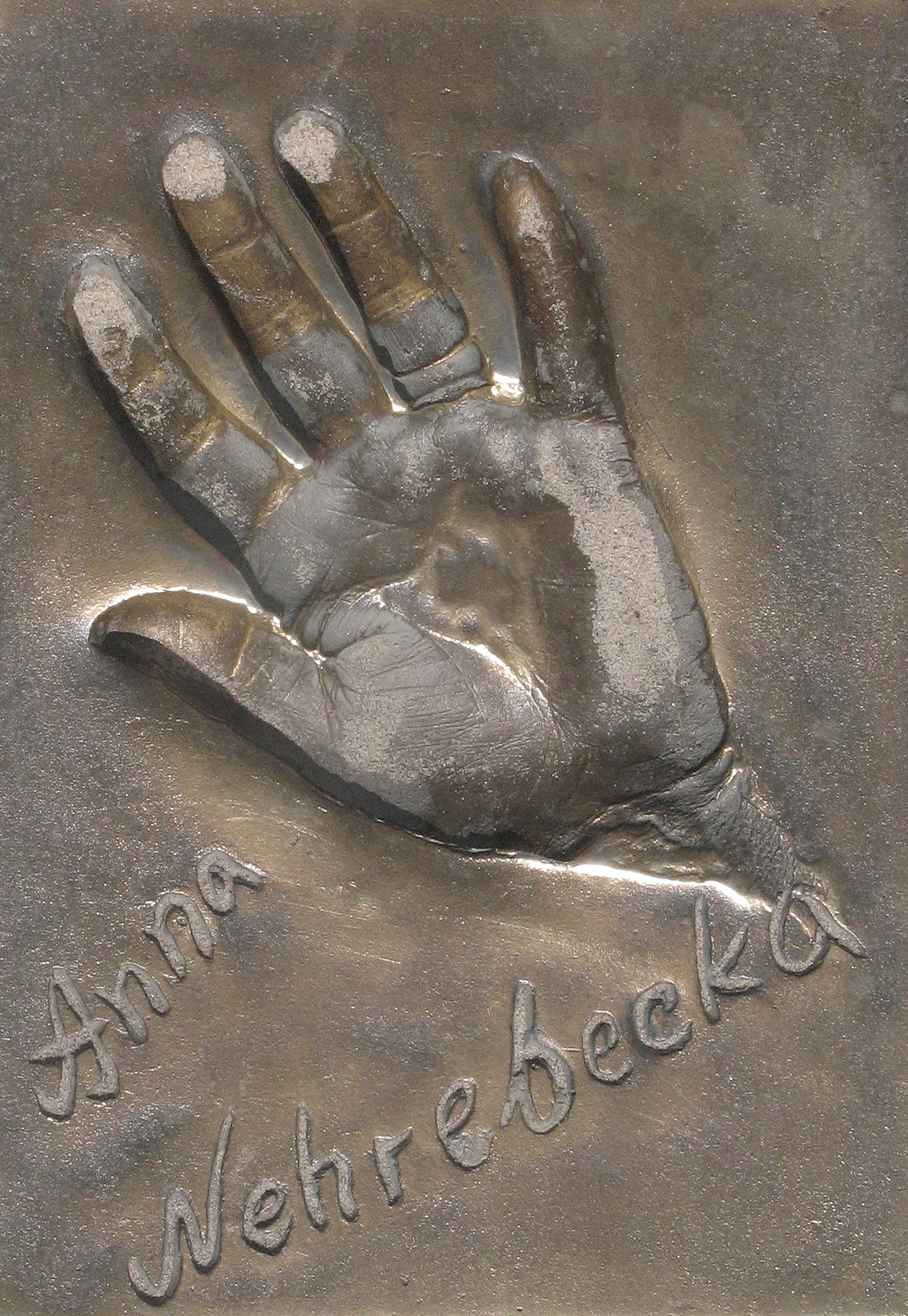 Anna Nehrebecka - handprint and signature in Międzyzdroje.